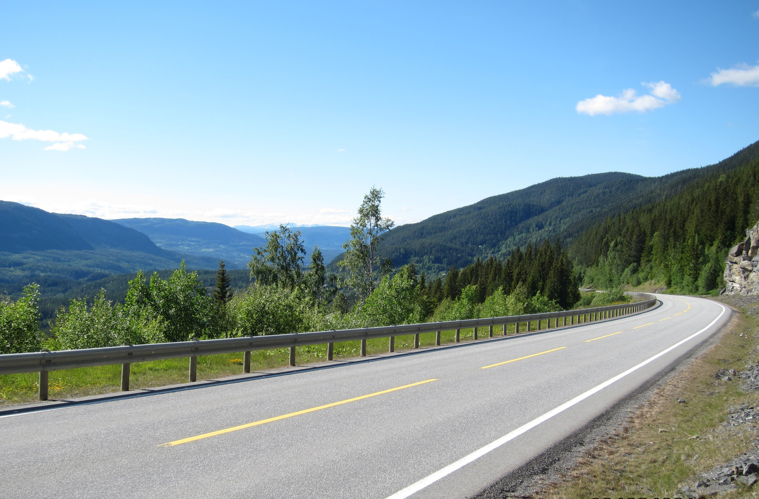 Nord-Aurdal Valdres seen from Tonsåsen and Fylkesvei 33 (County road 33 in Oppland)